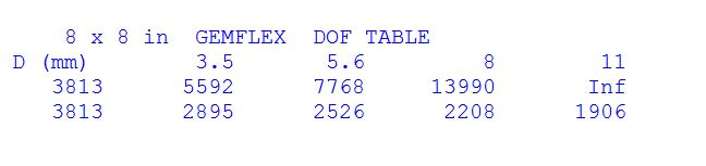 Gemflex subminiature camera depth of field table